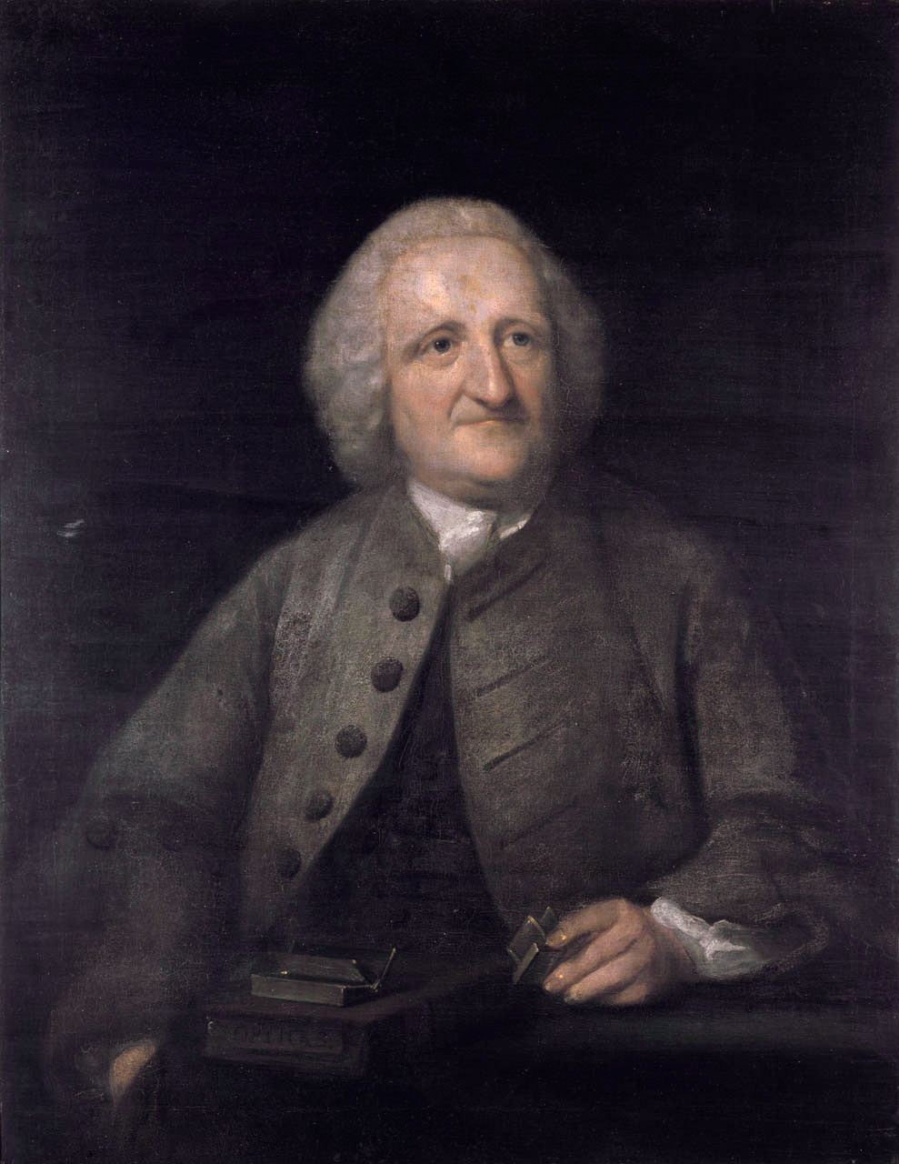 John Dollond oil on canvas 90.2 x 69.8 cm